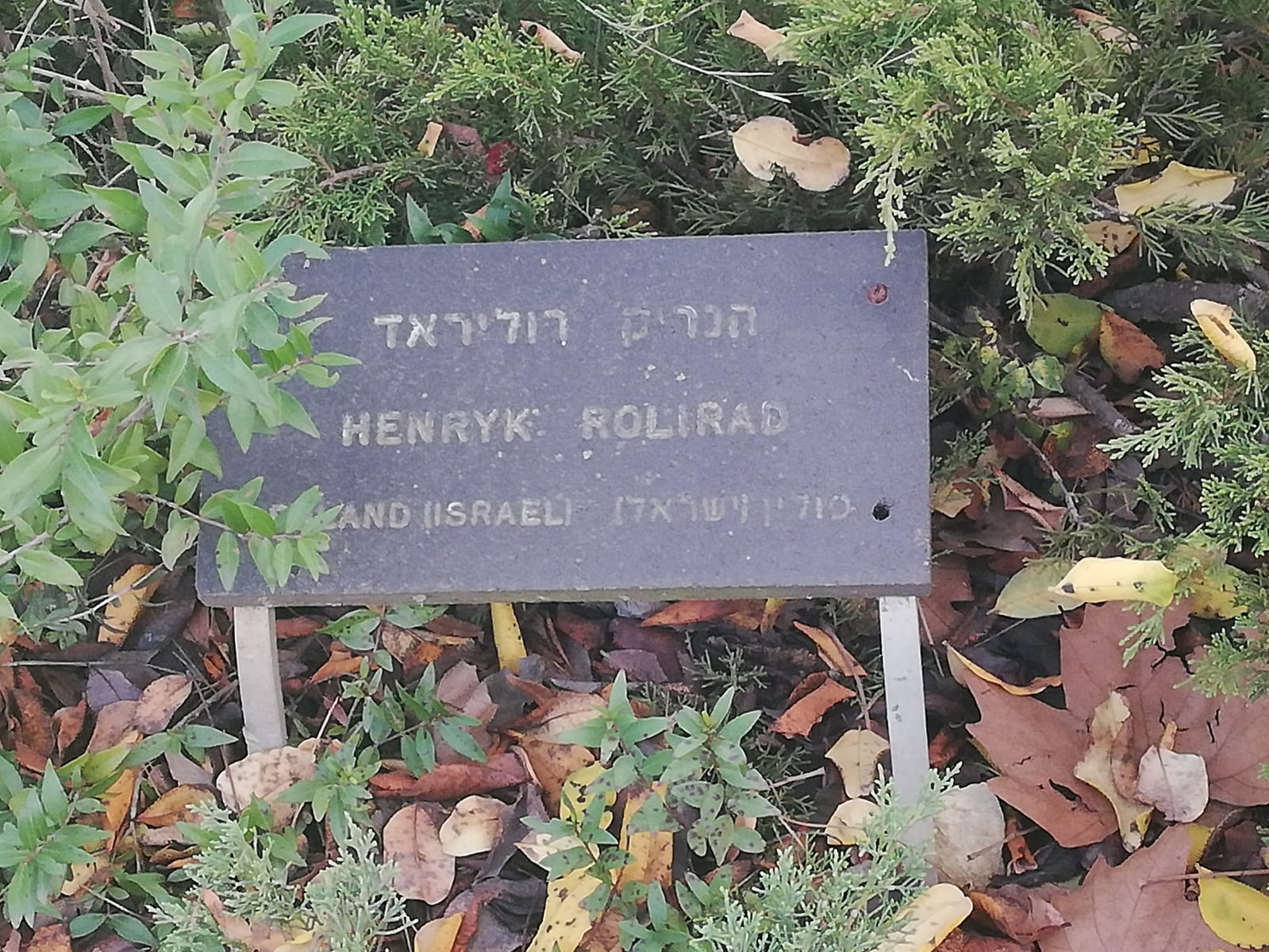 Sign with his name, Henryk Rolirad, near the tree of rightous.